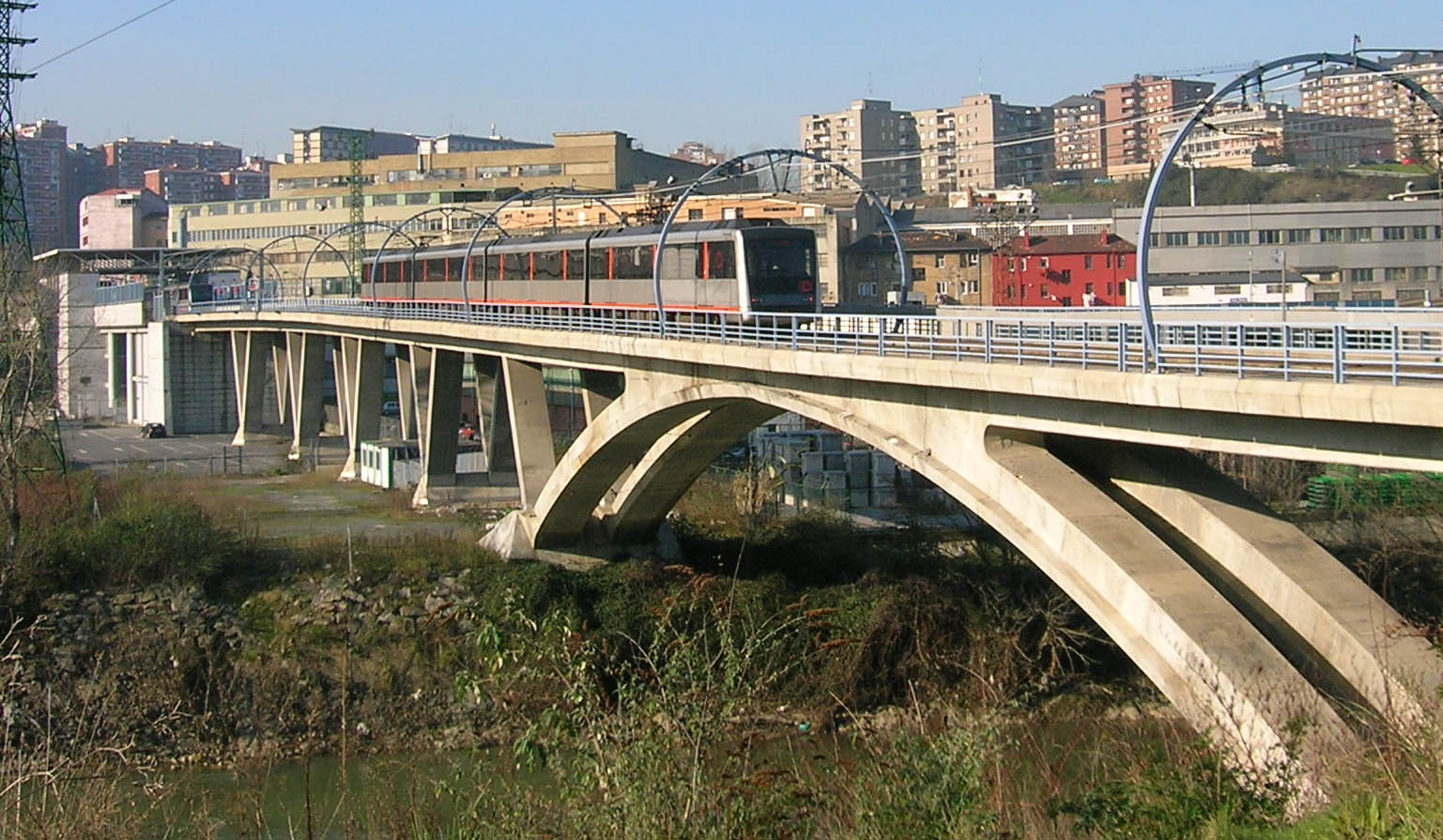 Train departing from Bolueta station, Bilbao, towards the tunnel of Etxebarri.